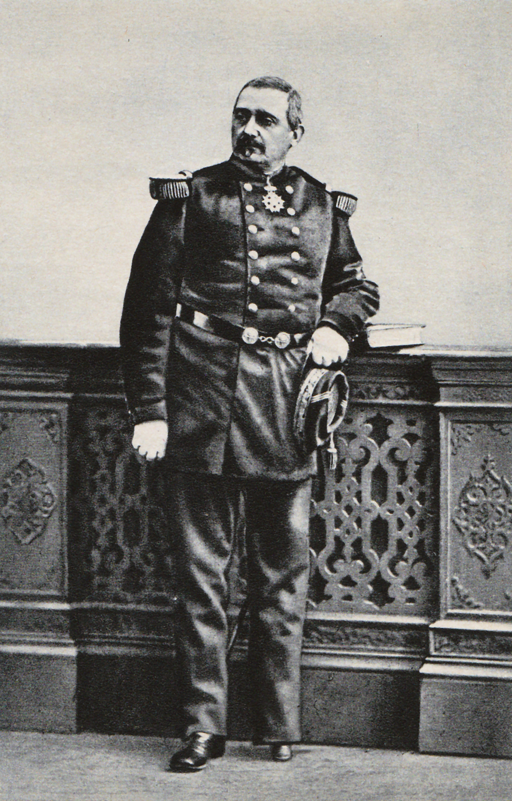 Portrait of French General Louis-Gaston de Sonis (1825-1887).